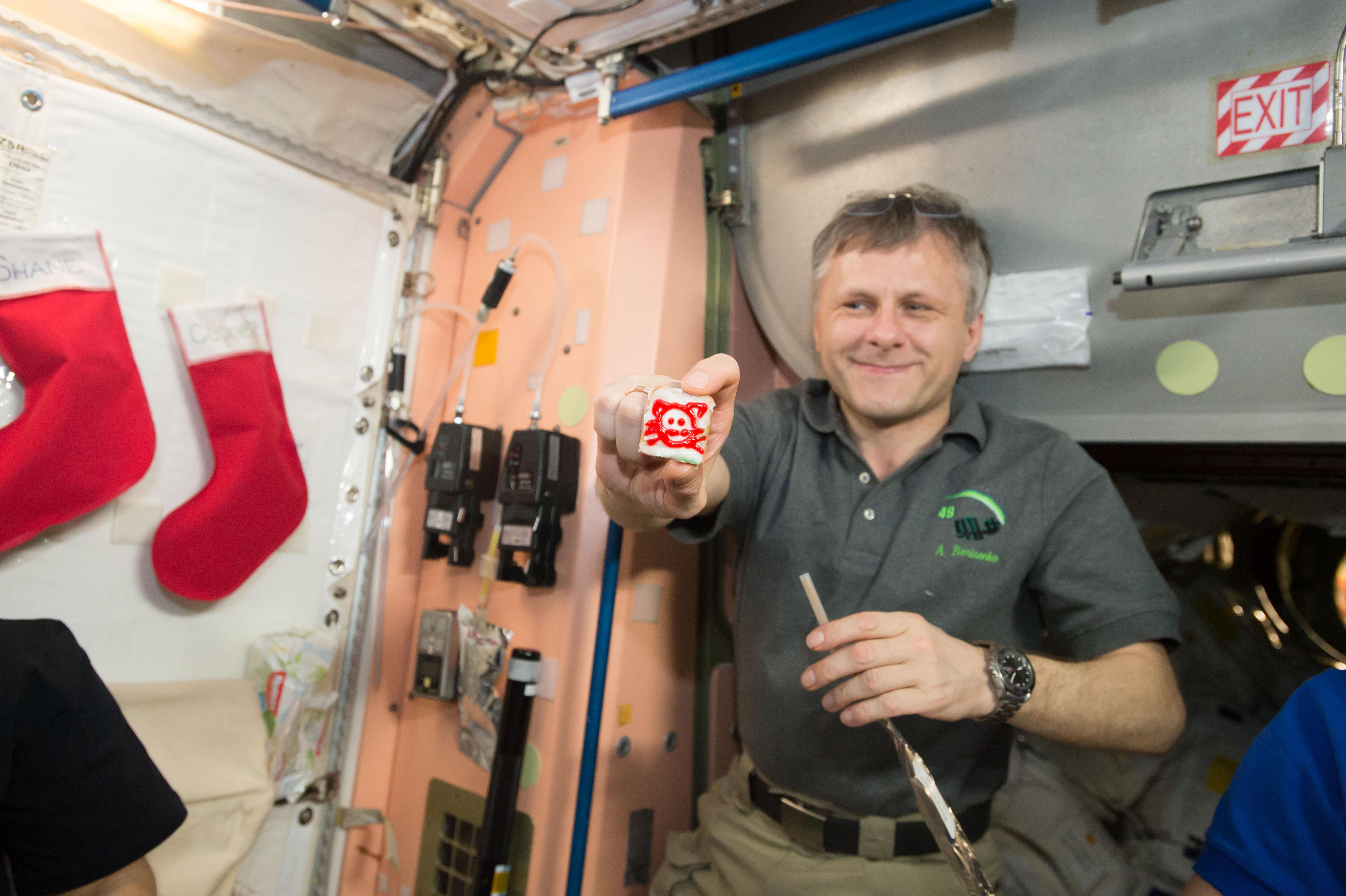 The crew of Expedition 50 gathered together to celebrate the holidays aboard the International Space Station. Roscosmos cosmonaut Andrei Borisenko is seen decorating a cookie as part of the event.